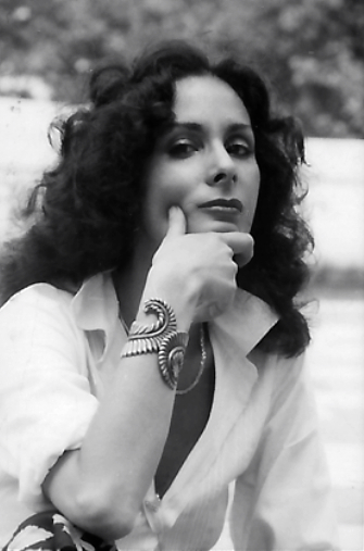 Author: Anita Golden